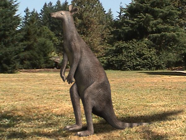 Protemnodon anak, Pleistocene of Australia. digital.